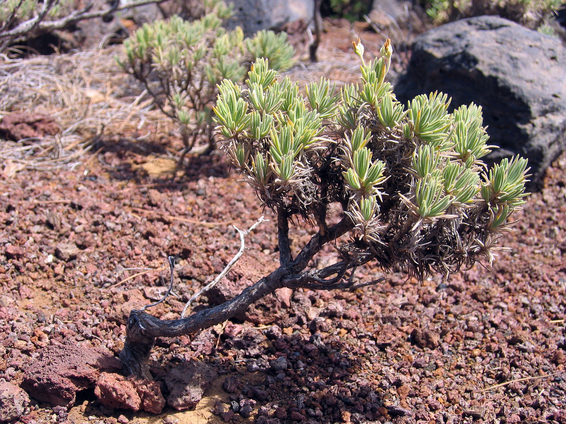 Plantago arborescens, Montana de los Charcos ~ 1850m, La Palma, Spain